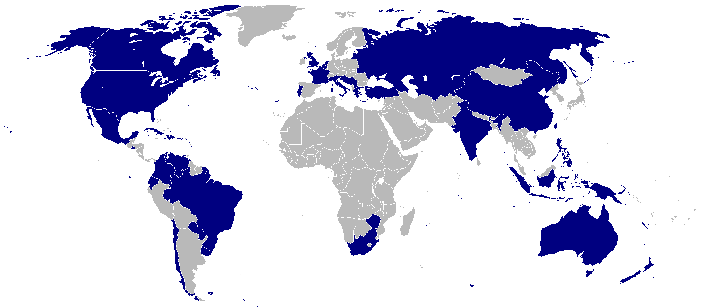 Users of the Stuart tank, as read in the article.